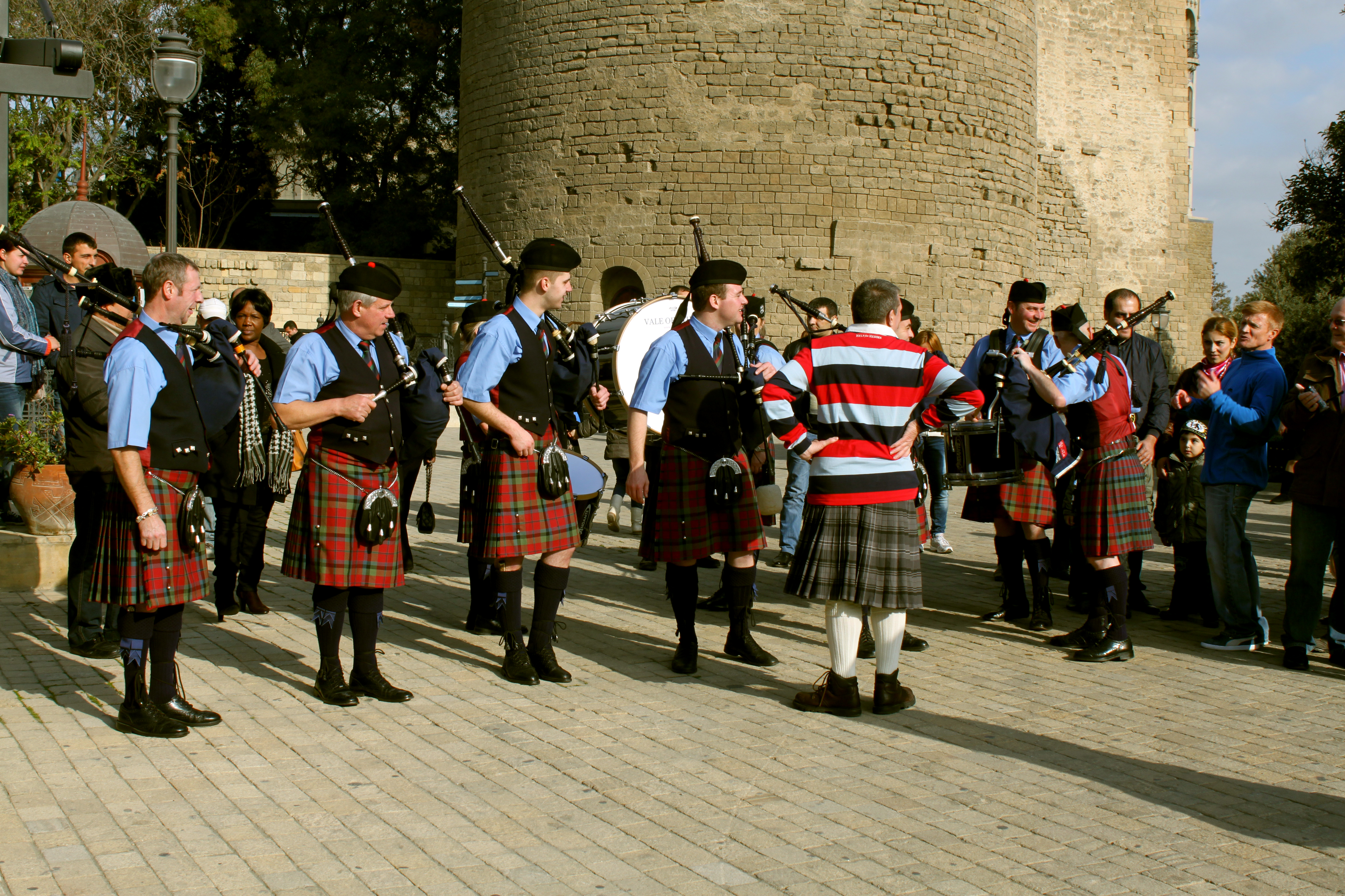 St. Andrew's Day in Baku